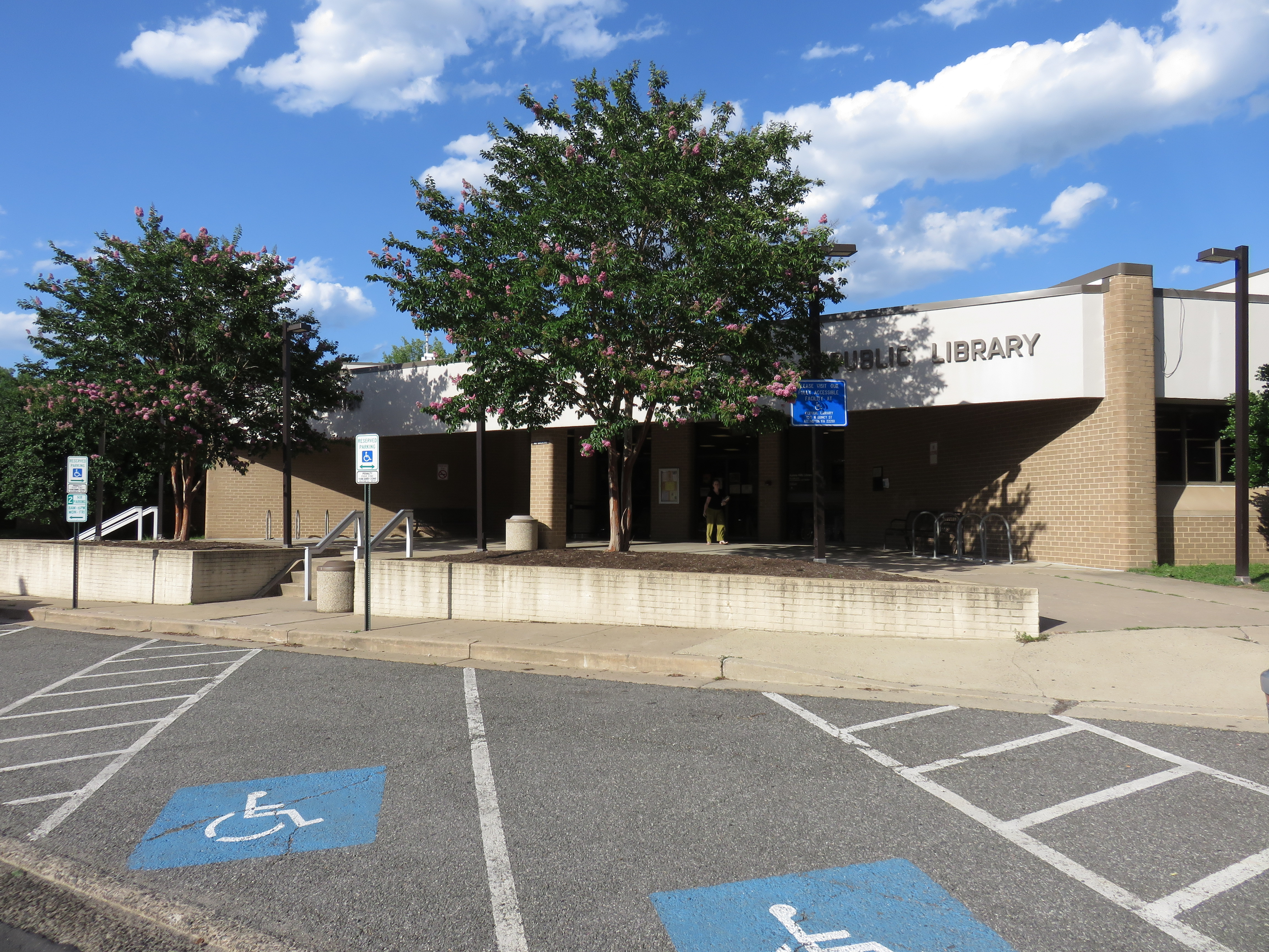 Aurora Hills Branch Library in Arlington, Virginia in 2017